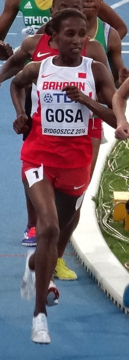 2016 IAAF World U20 Championships in Bydgoszcz, 3000m women final